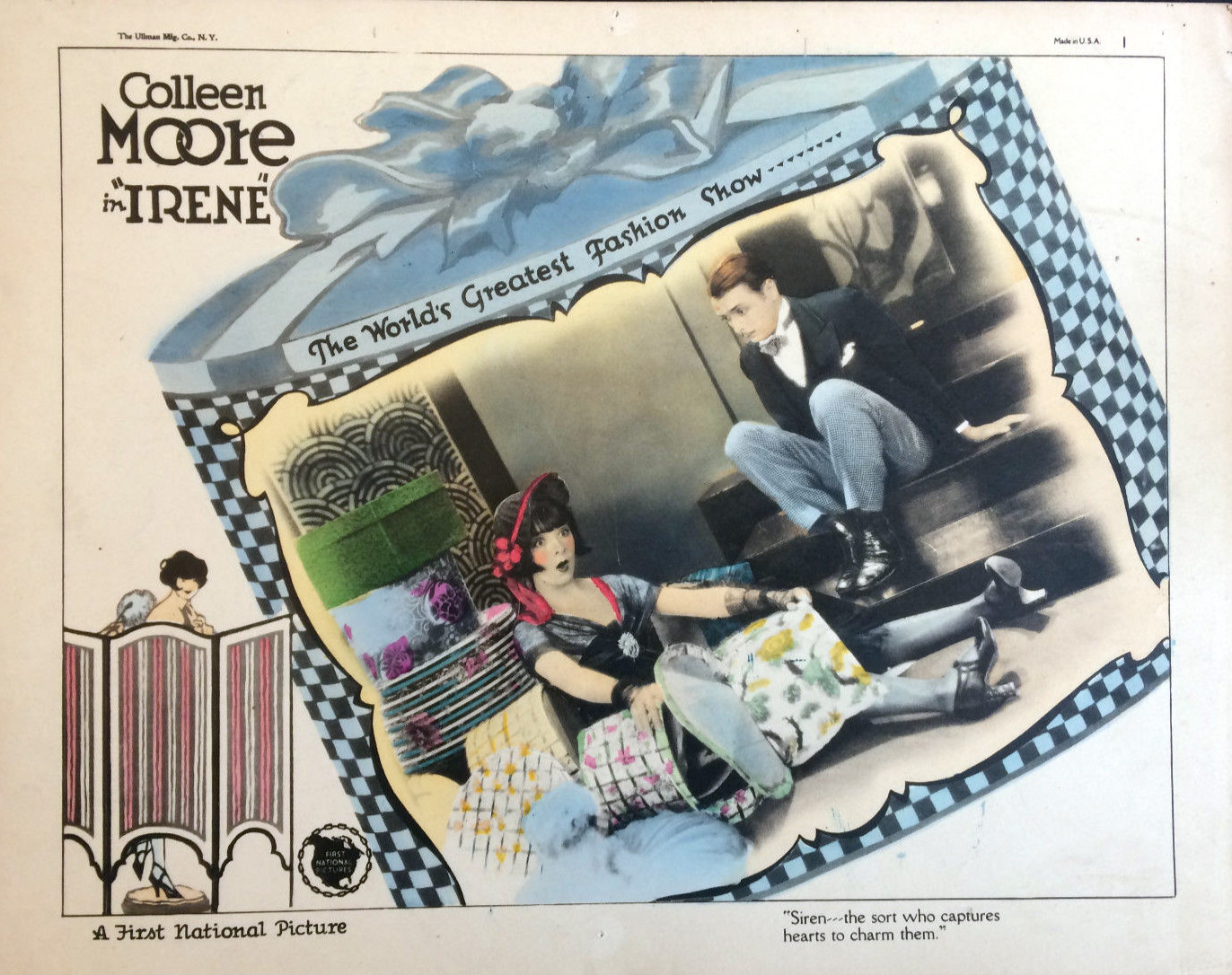 Lobby card for the film Irene (1926).